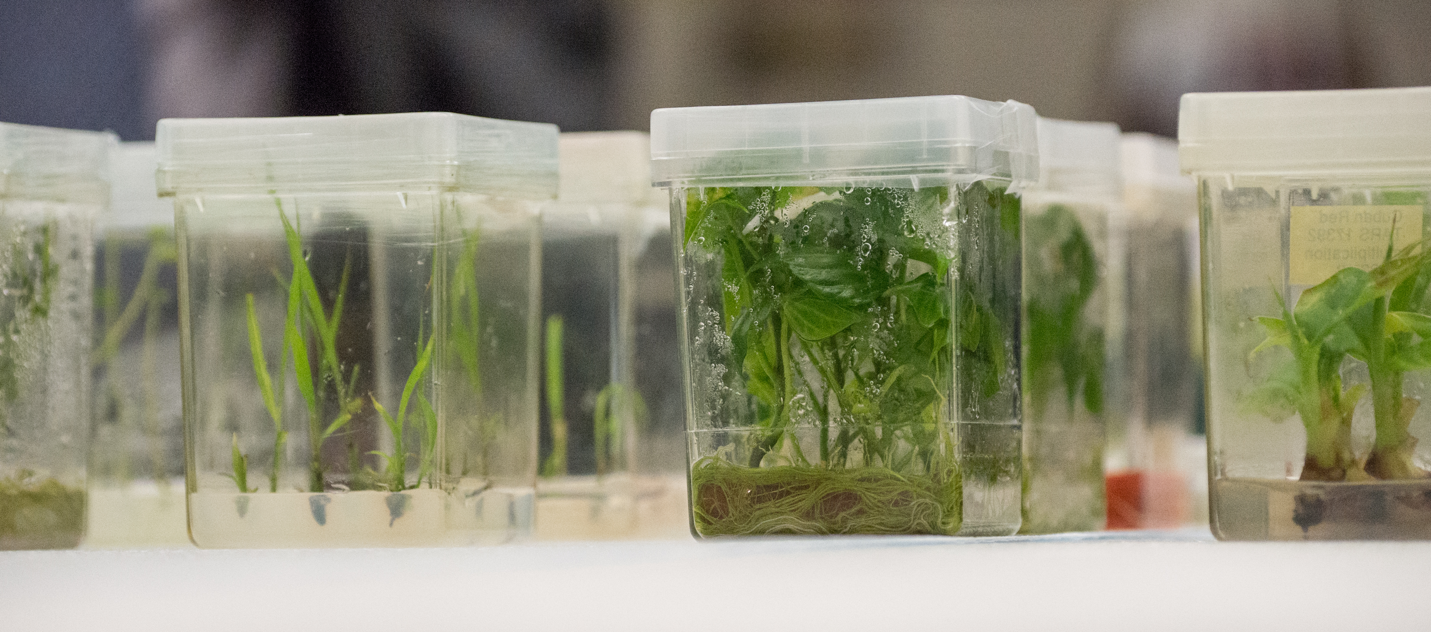 Plant tissue cultures being grown at a USDA facility.